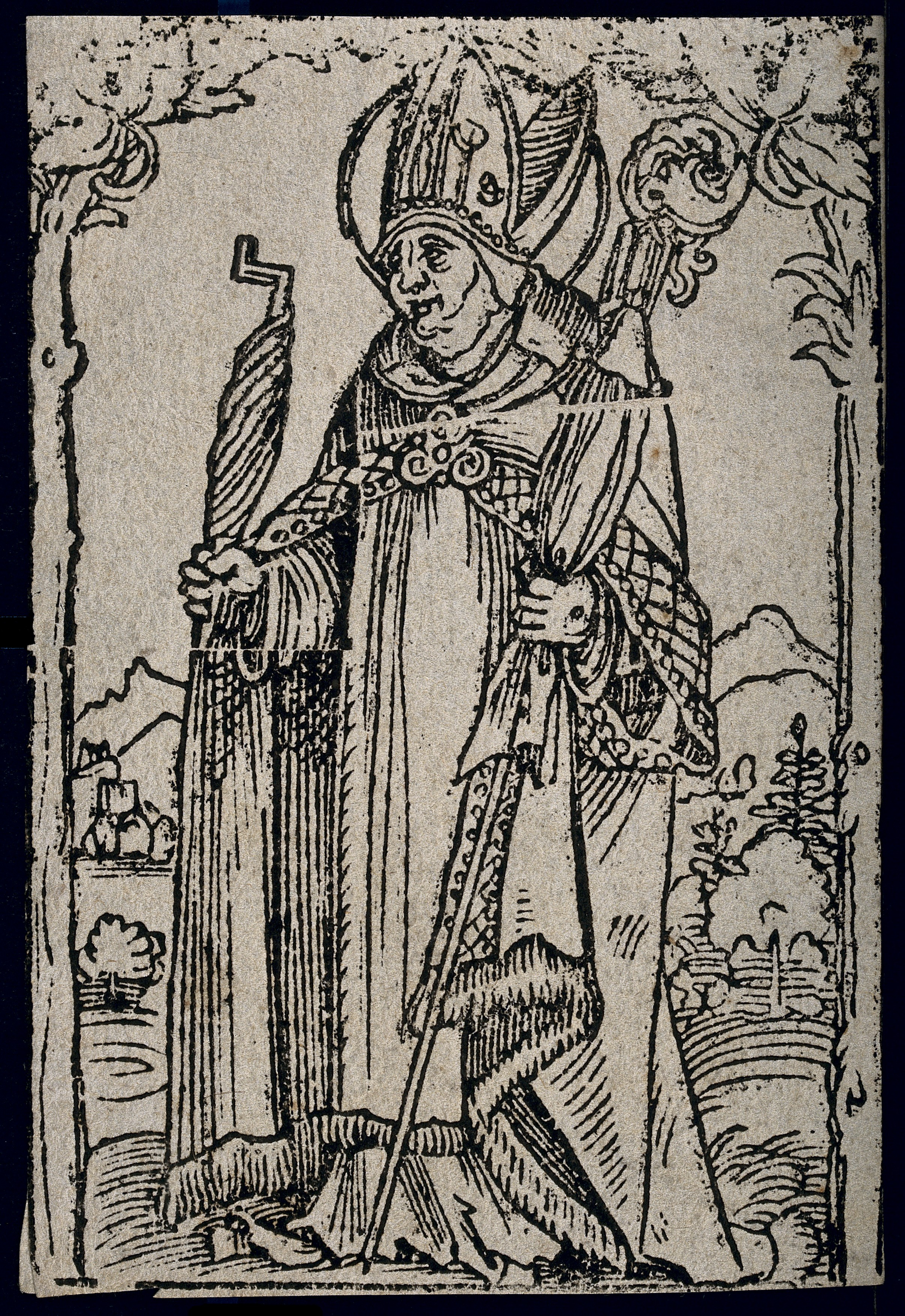 Saint Erasmus. Woodcut. Iconographic Collections